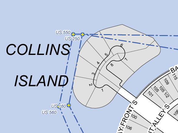 City Plot Map showing the 8 home sites on Collins Island Newport Beach CA